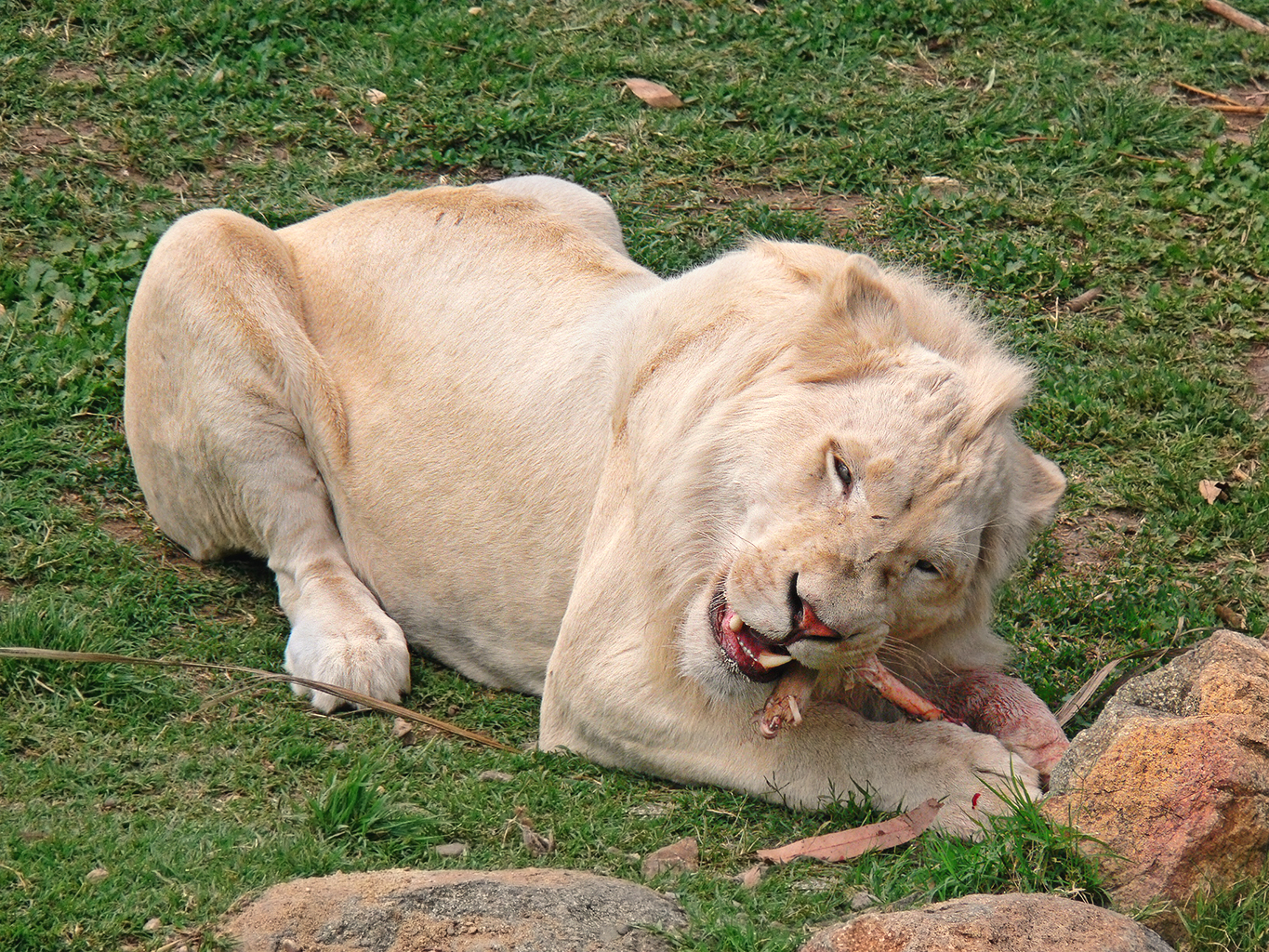 White lion (subspecies of Panthera leo krugeri) feeding